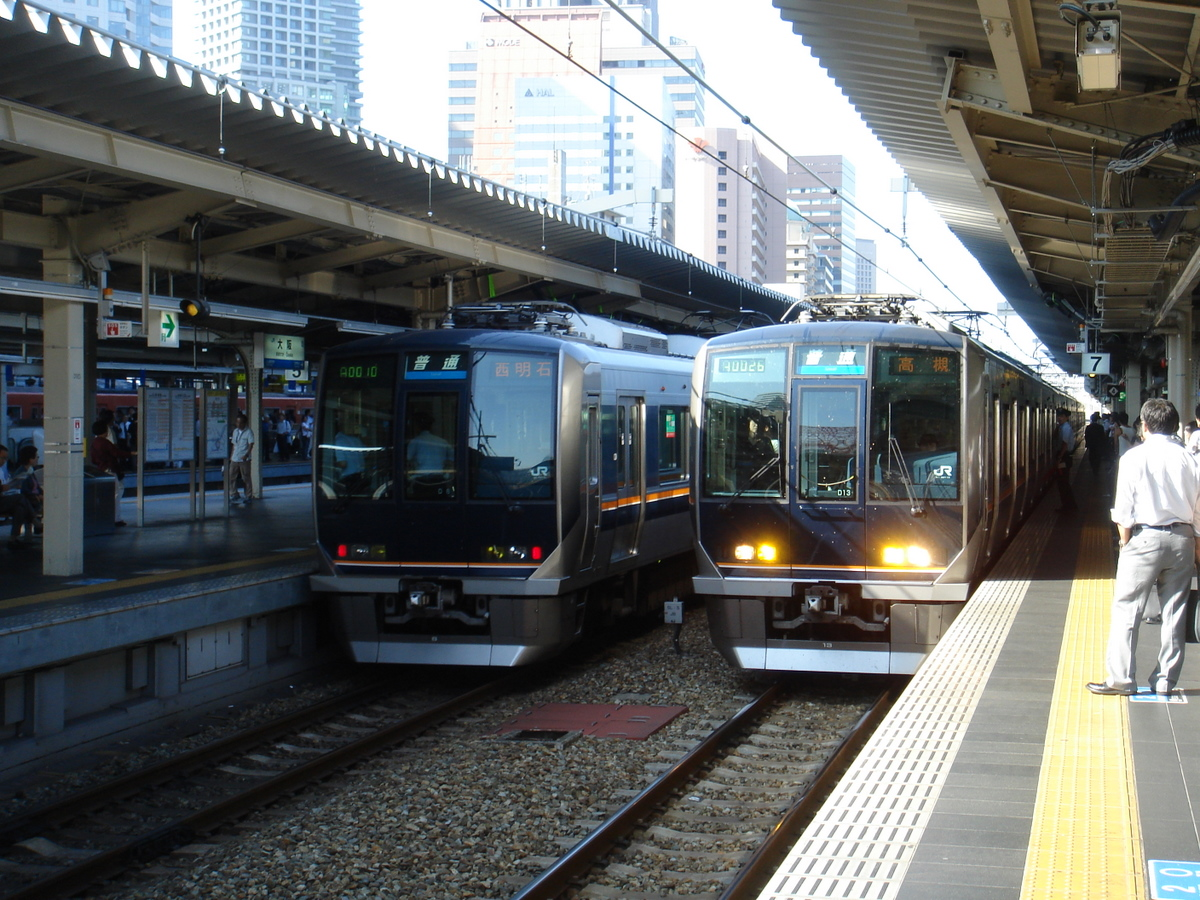 JR West 321 series EMUs at Osaka Station